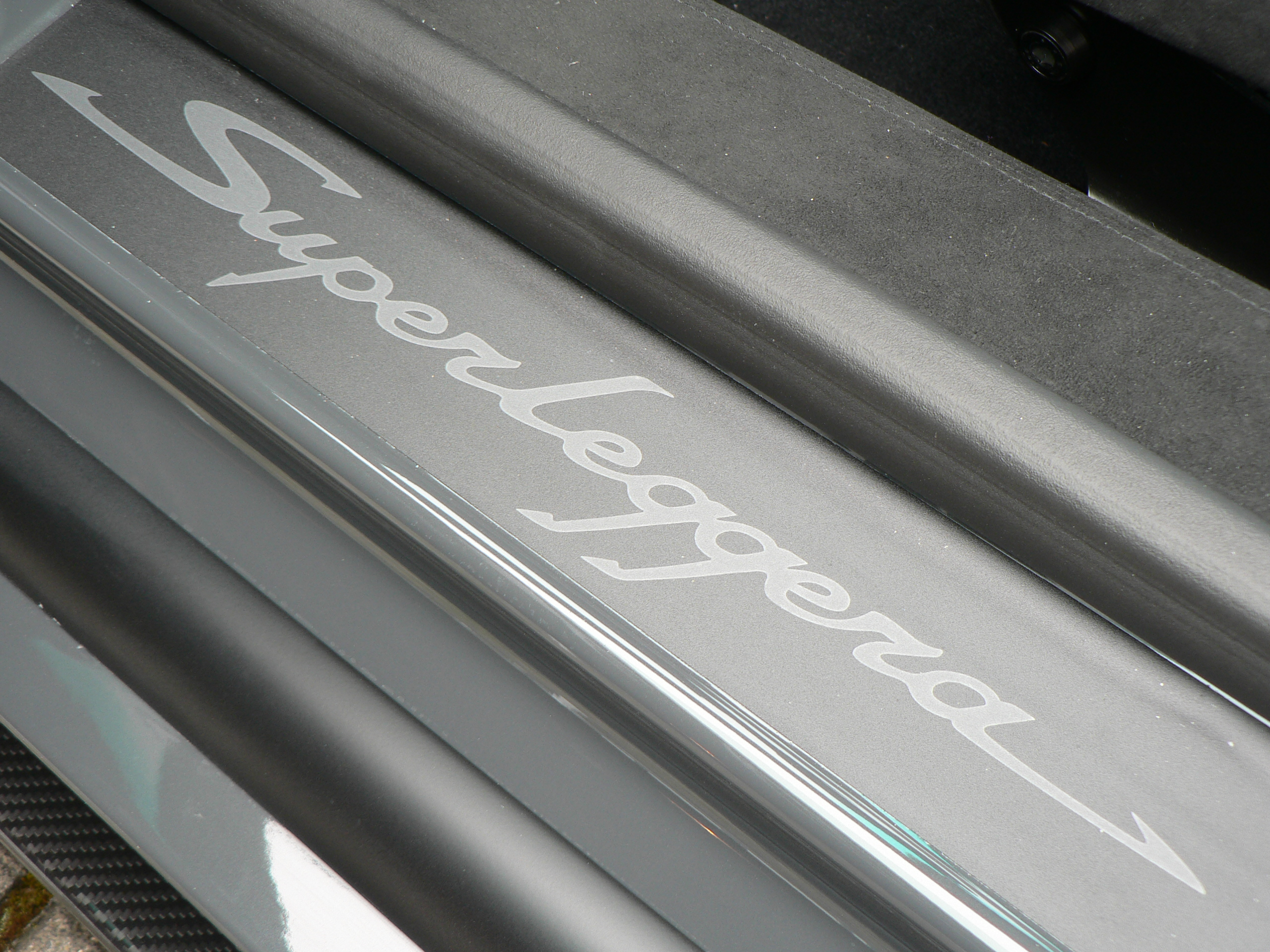 Lamborghini Supperleggera logo